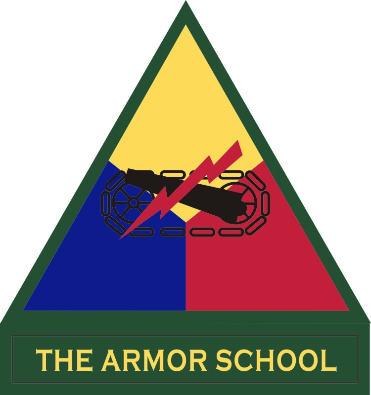 The shoulder sleeve insignia for soldiers assigned to the United States Army Armor School